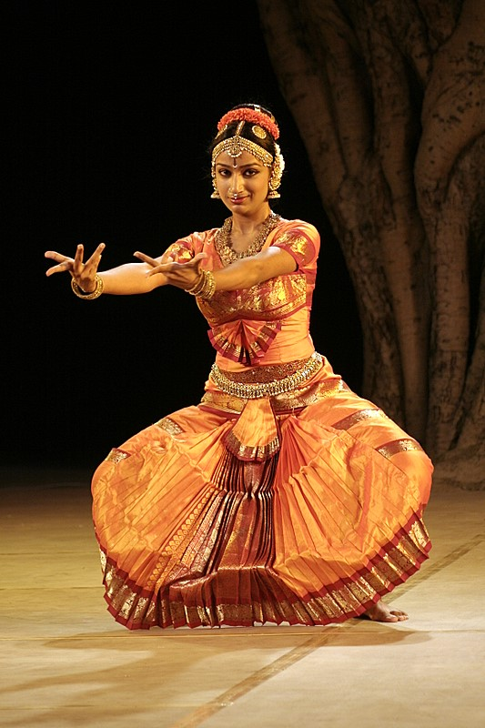 Sangeet Natak Akademi Delhi organized a festival of performances of recipients of Young Awardees of 2007.I attended performance of Mohiniattam by Methil Devika, Manipuri by Laishram Bina Devi and Kuchipudi by Yamini Reddy. Here some shots taken during performance.